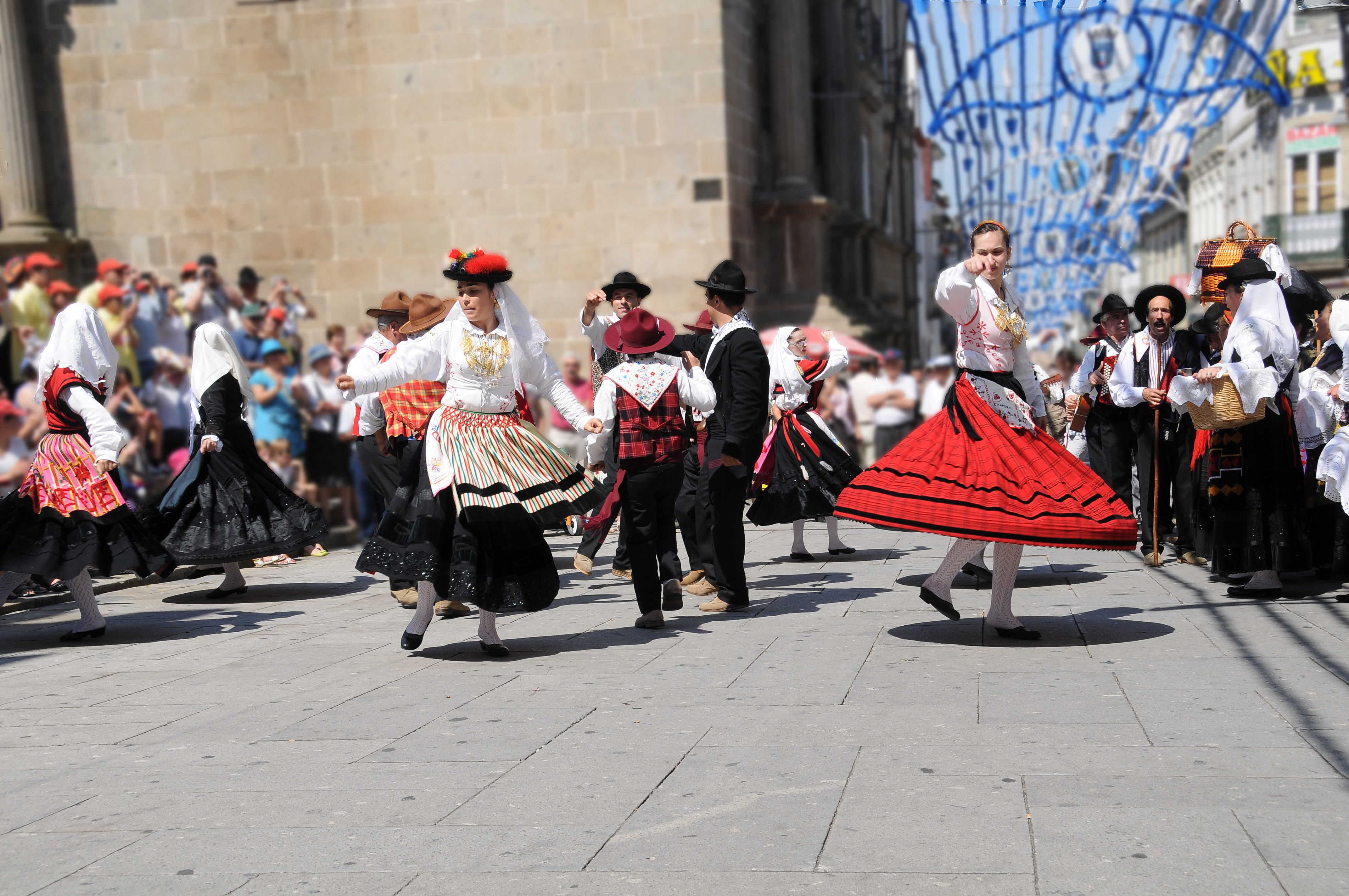 Traditional dancers in the street in Saint John Feast, Braga, Portugal.